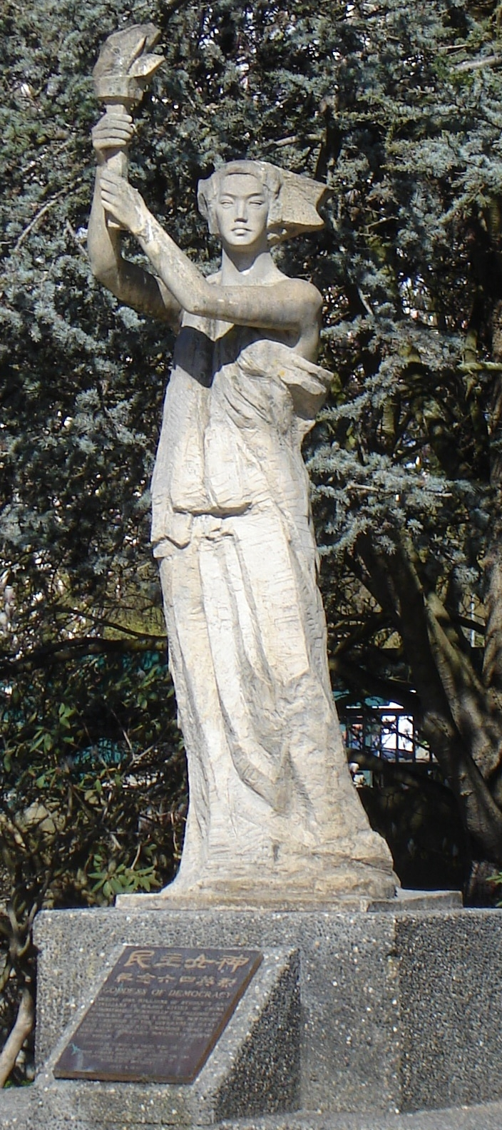 Photo taken outside of Student Union Building of the University of British Columbia in Vancouver, Canada.